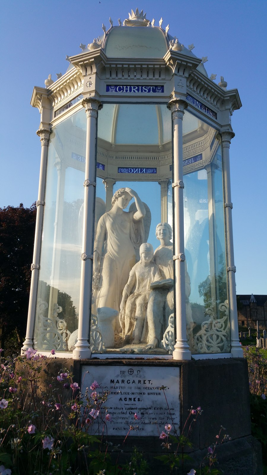 The Martyrs Monument, Stirling Old Town Cemetery